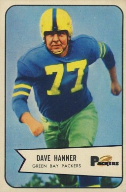 American football player Dave Hanner on a 1954 Bowman card.